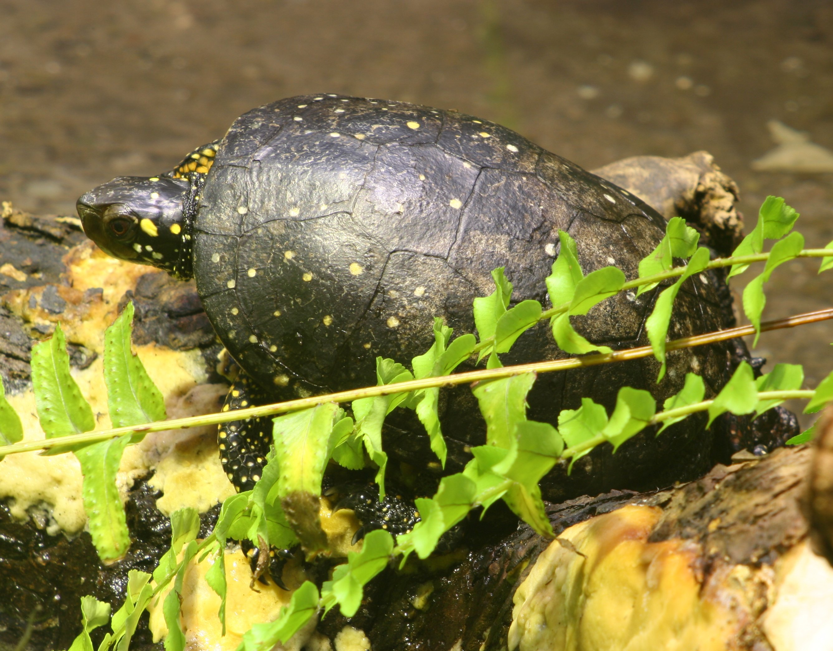 Spotted Turtle (Clemmys guttata) at the Buffalo Zoo